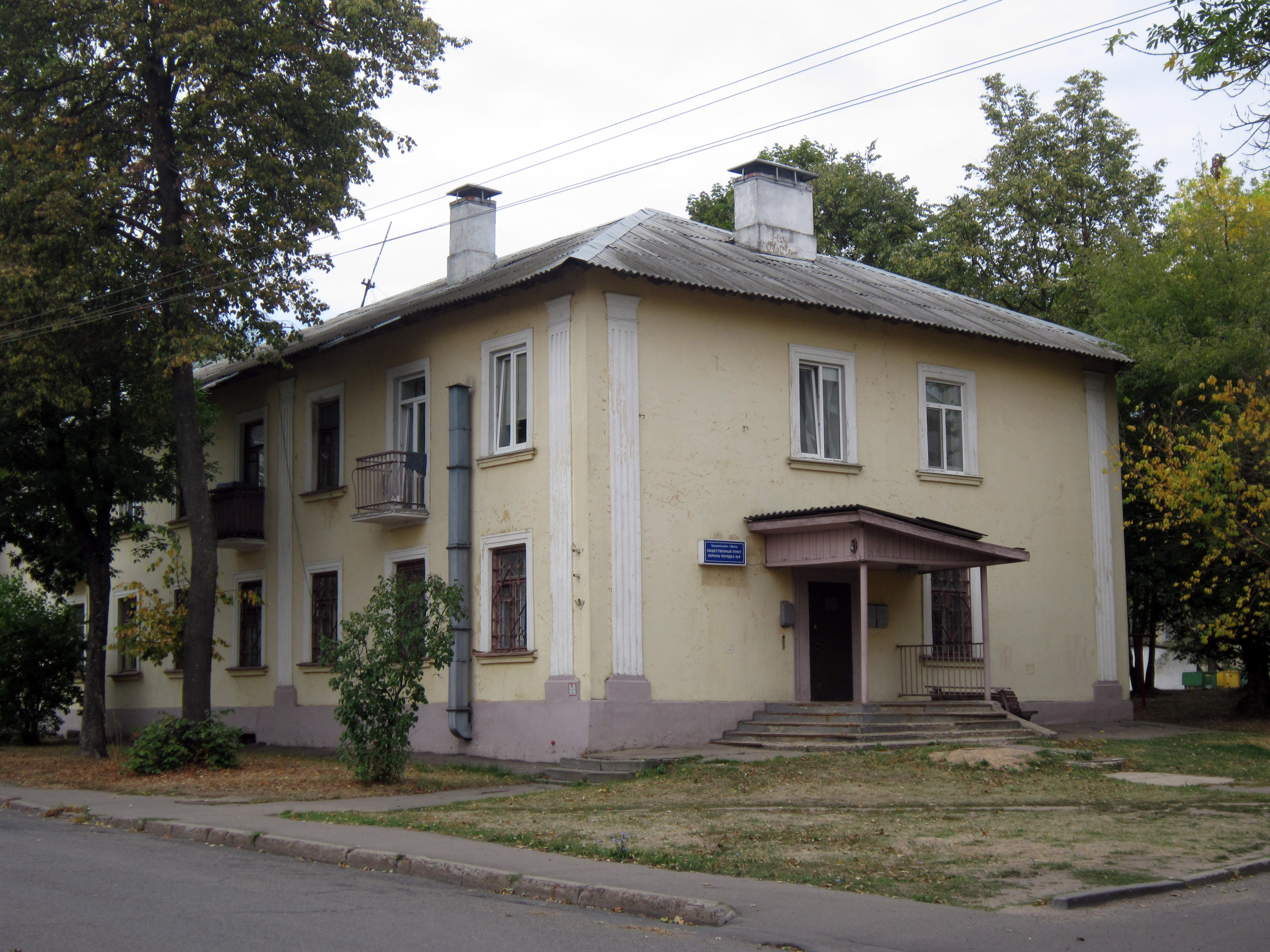 Lizy Čajkinaj street (Minsk, Belarus), house No 15